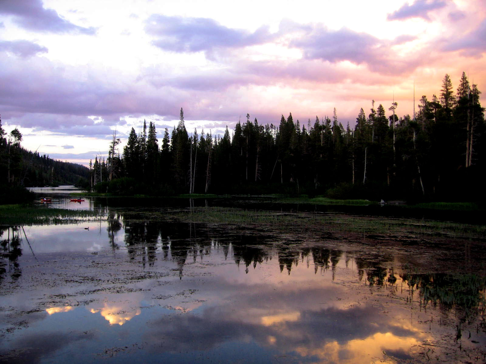 Each changing second a precious moment. always best scene large